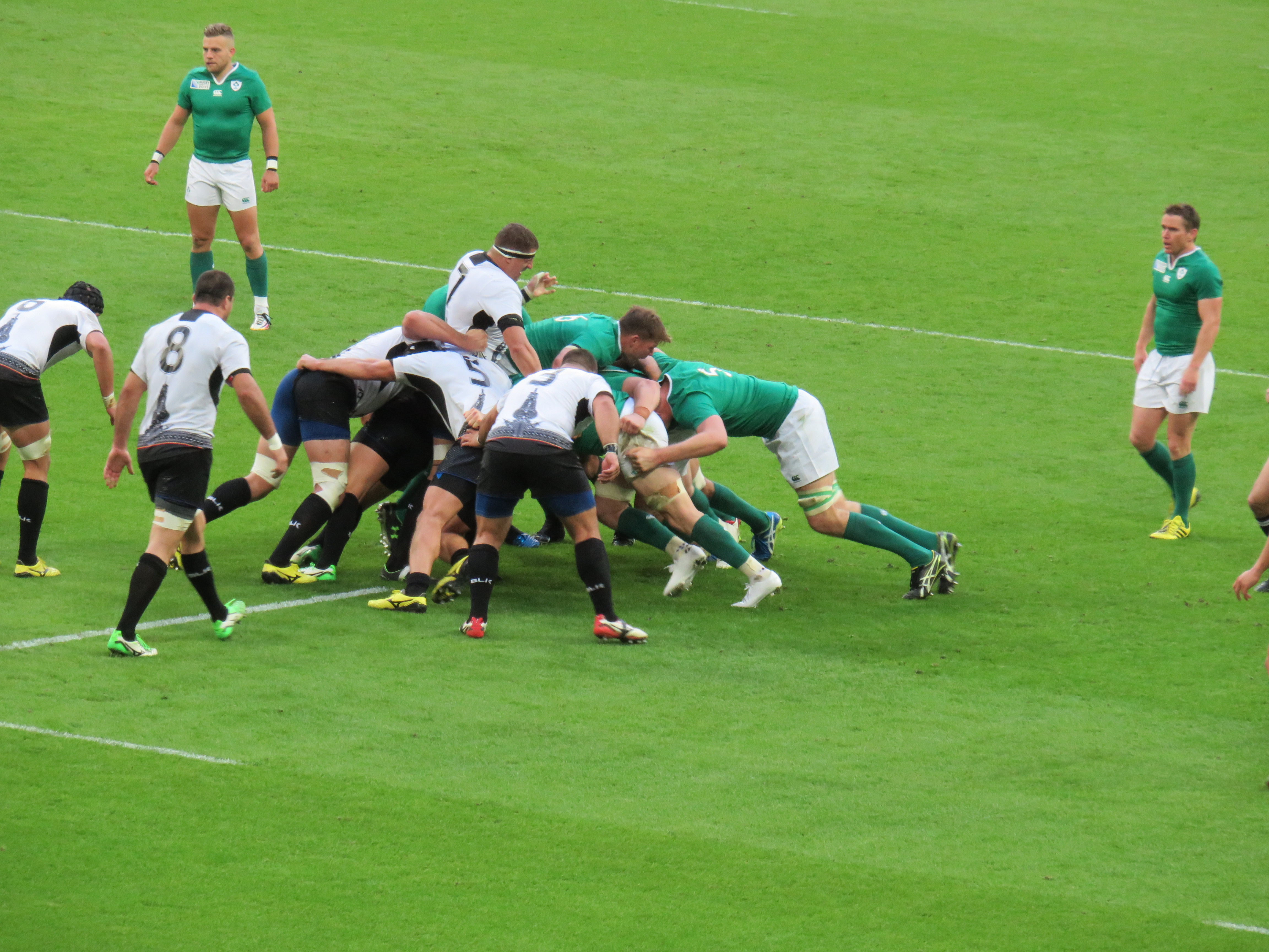 2015 Rugby World Cup game Ireland vs Romania at Wembley Stadium, London.